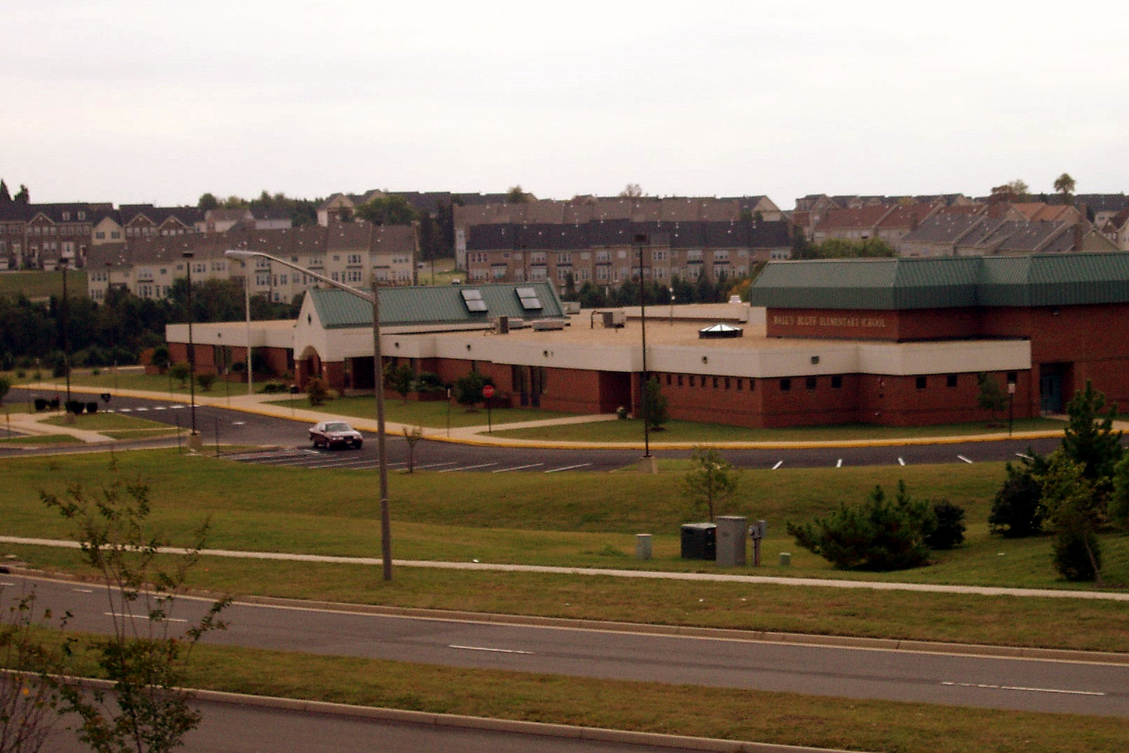 Ball's Bluff Elementary School